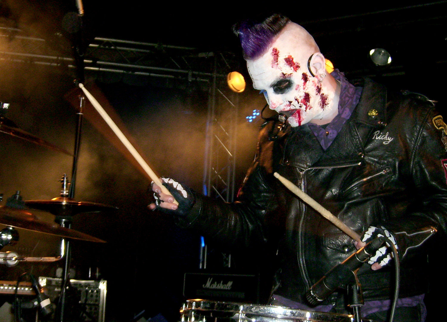 Bloodsucking Zombies From Outer Space gig in Tampere's Club Sin, May 2009